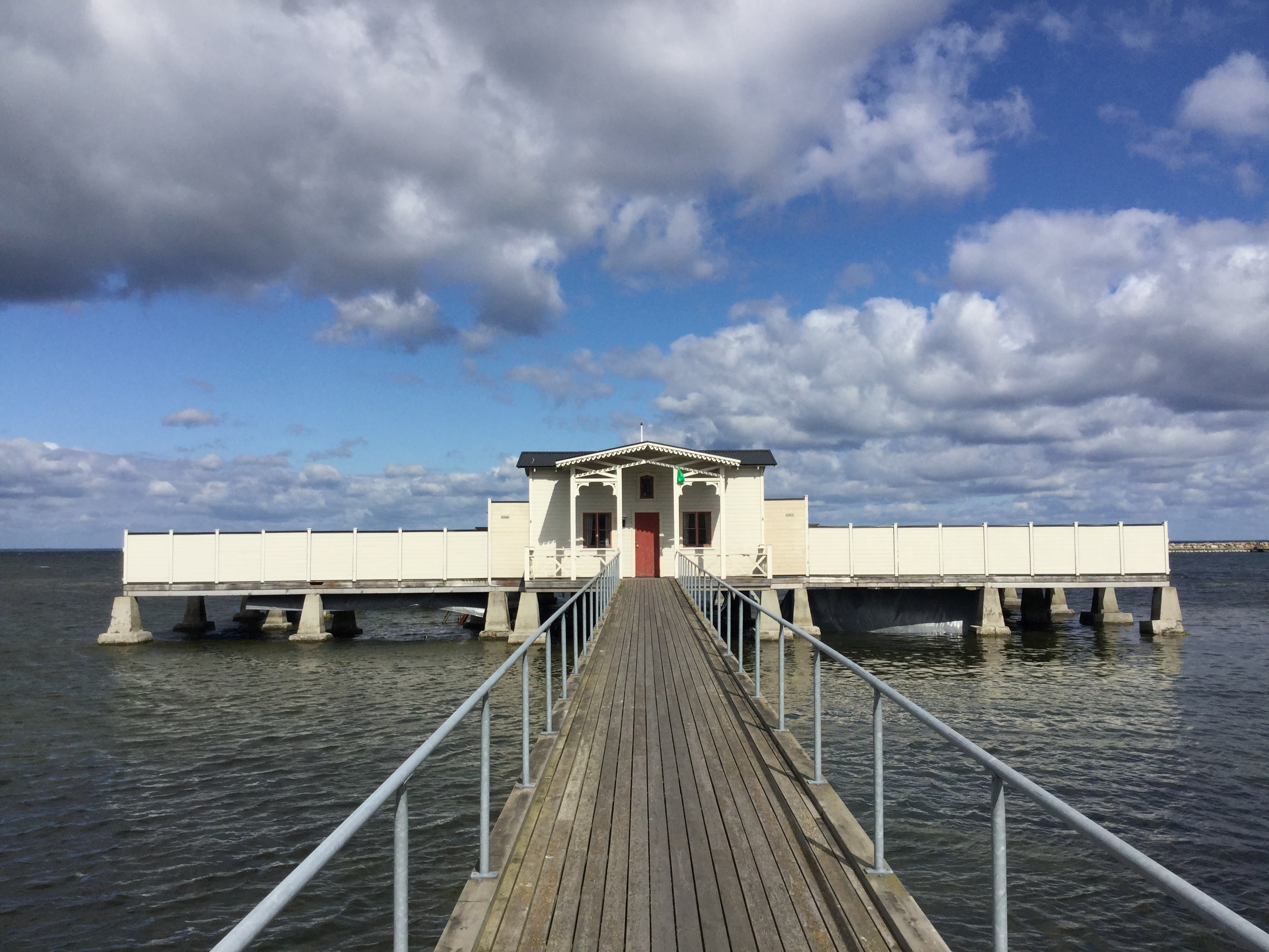 Borgholms kallbadhus i juni 2017